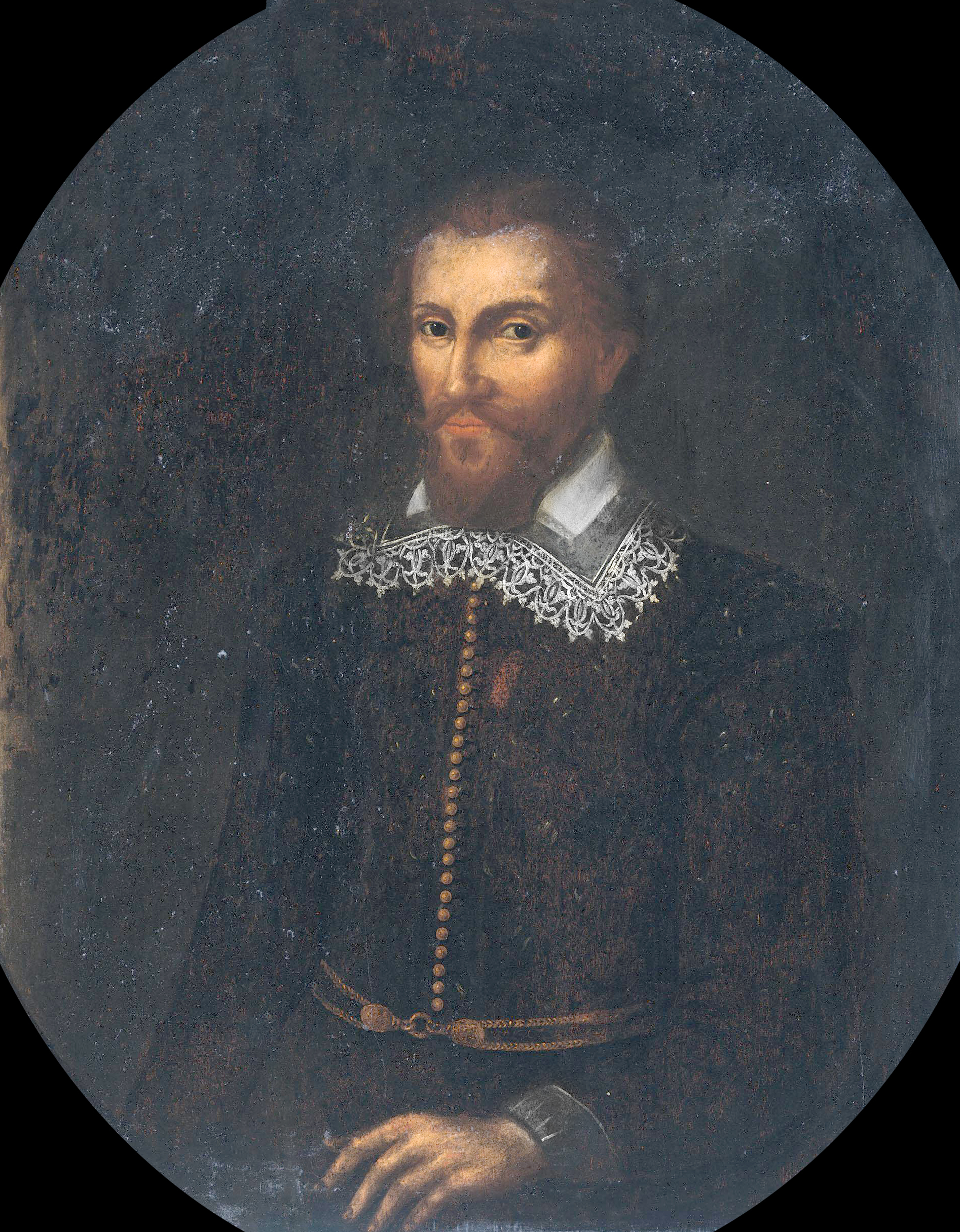 Paty of the Governor-general series.